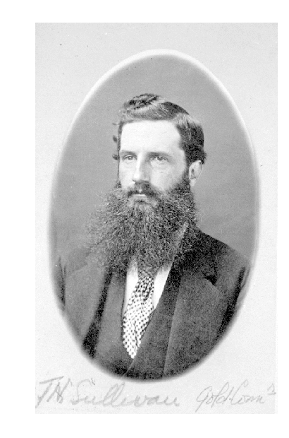 Photo taken 1870 Photograper: Spencer BC Archives #A-01881 [1]